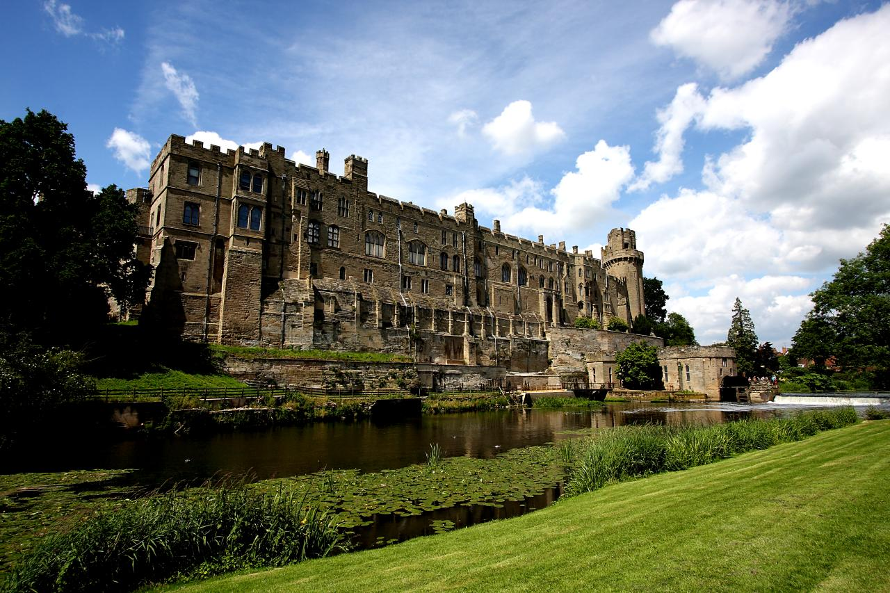 The exterior of Warwick Castle's main accomodation block from across the River Avon